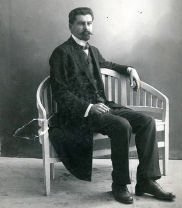 Portrait (Photograph), 1913